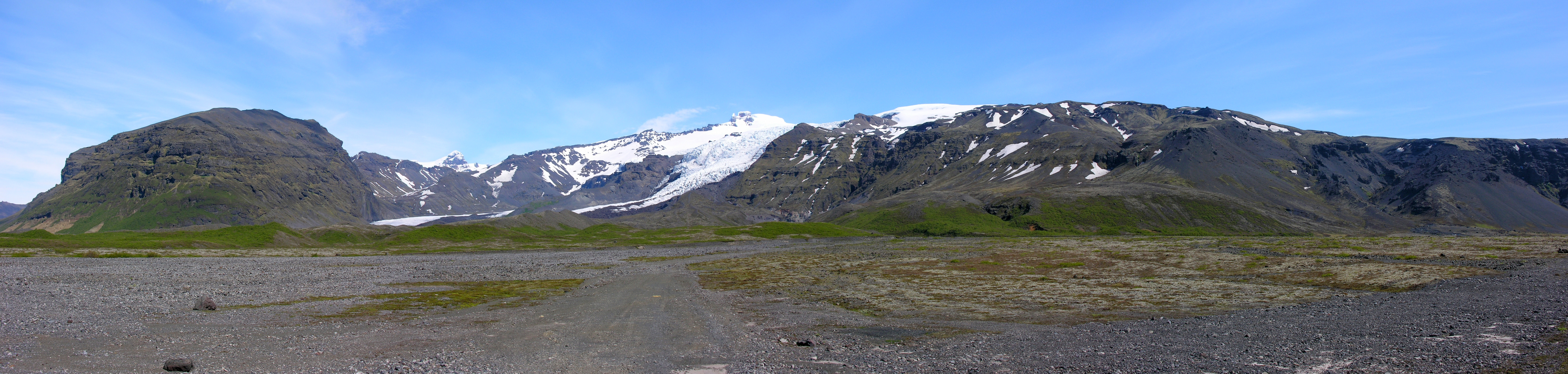 Another Branch of Öræfajökull flowing down to Sandfellsheiði